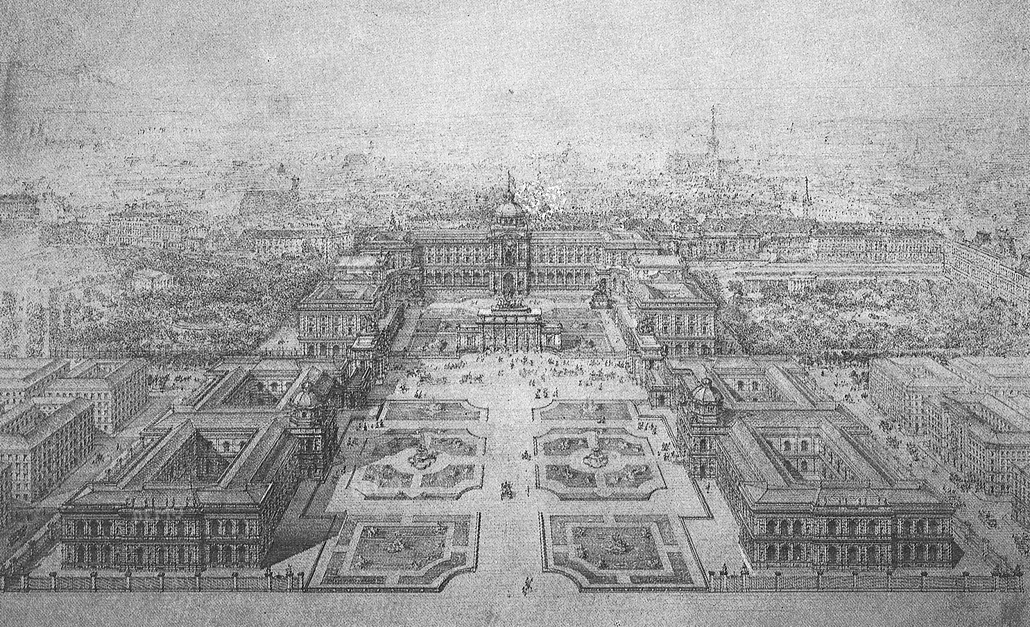 sketch of the Kaiserforum (Vienna)